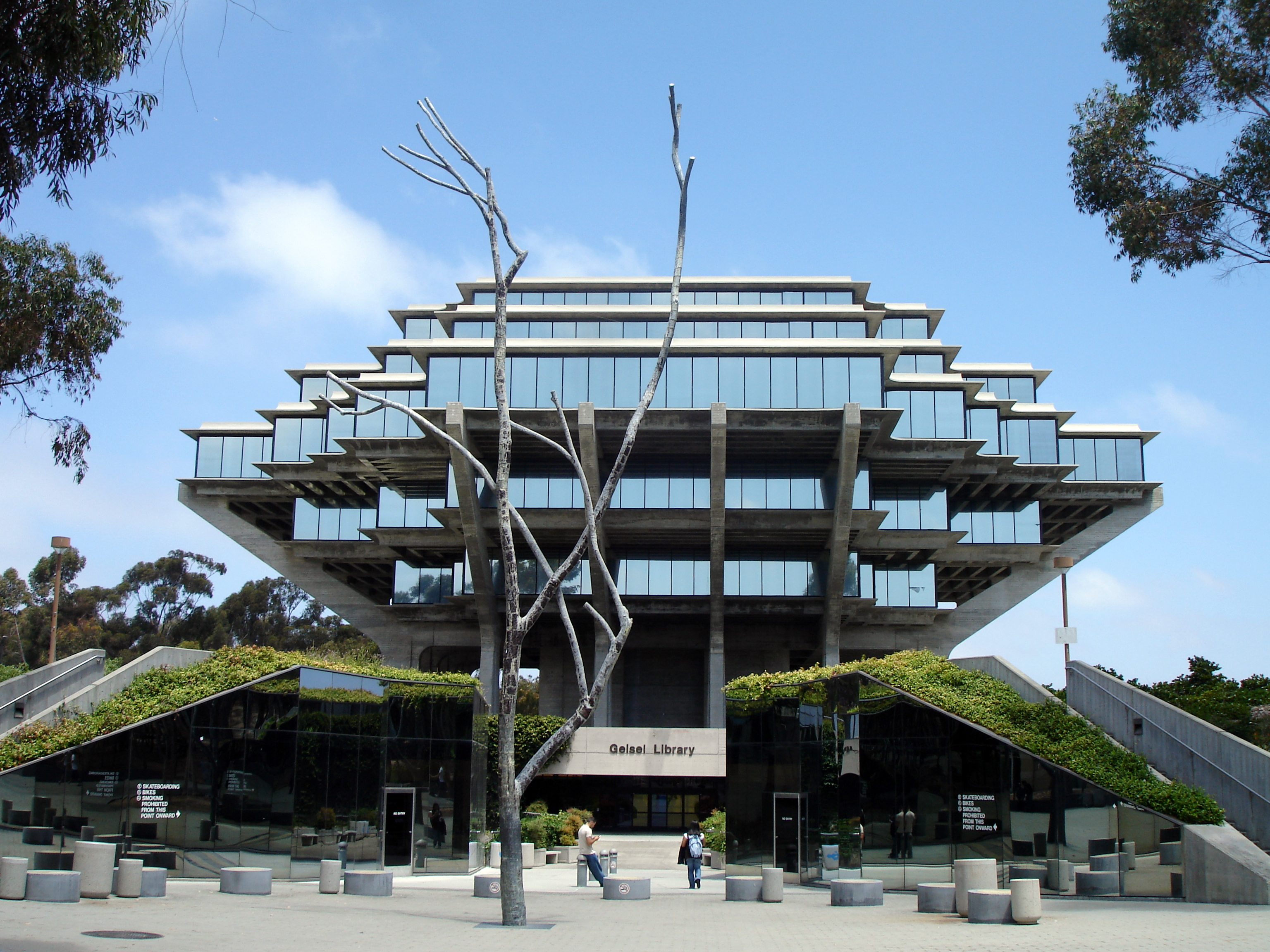 Geisel Library, UCSD